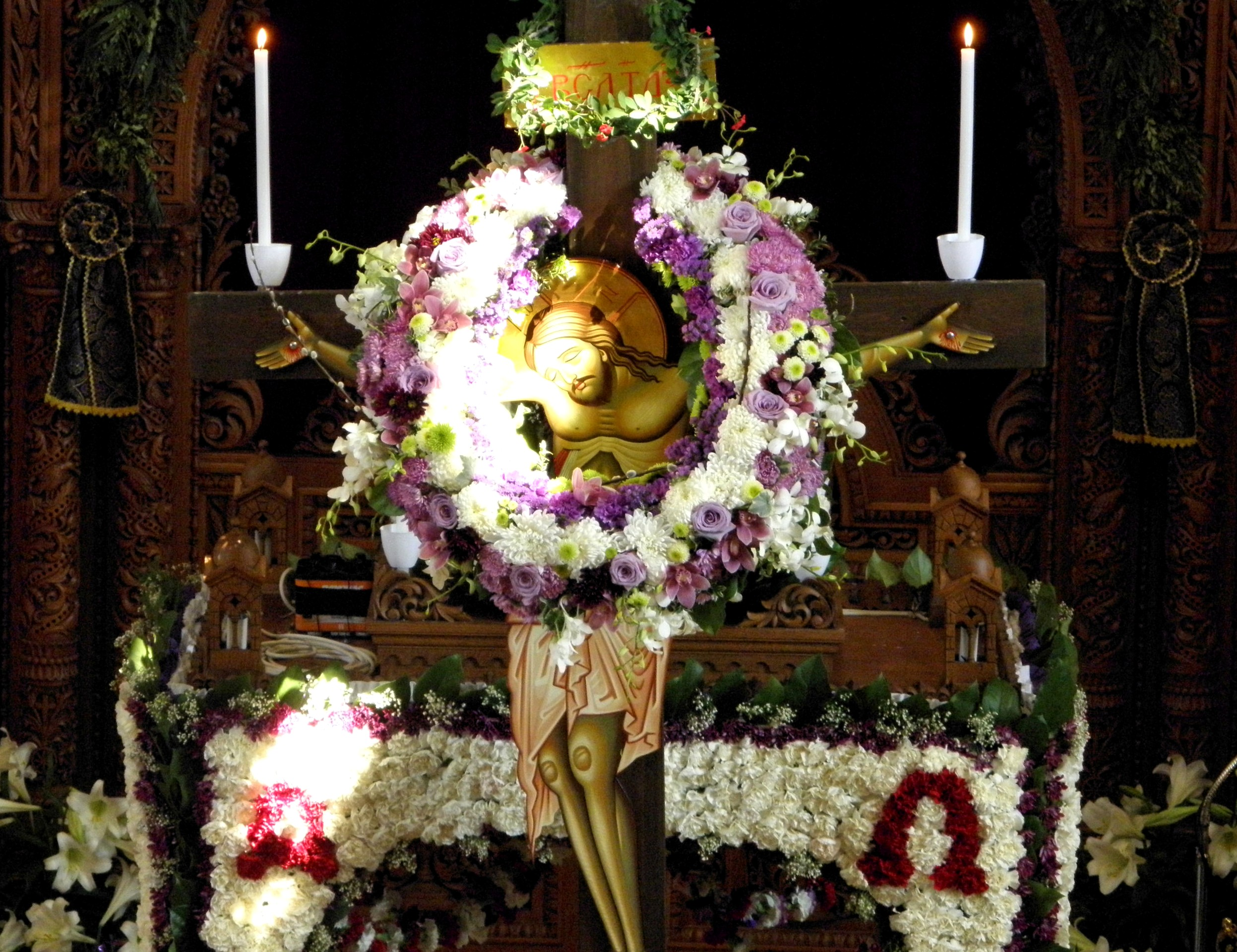 From the Vespers of Good Friday afternoon (The Apokathylosis Service), 2012. The crucified Christ, just before the removal of His Body (the Epitaphios) from the Cross, and its placement in the Sepulcher, a bier symbolizing the Tomb of Christ. Annunciation of the Virgin Mary Greek Orthodox Cathedral, Toronto, Ontario, Canada.